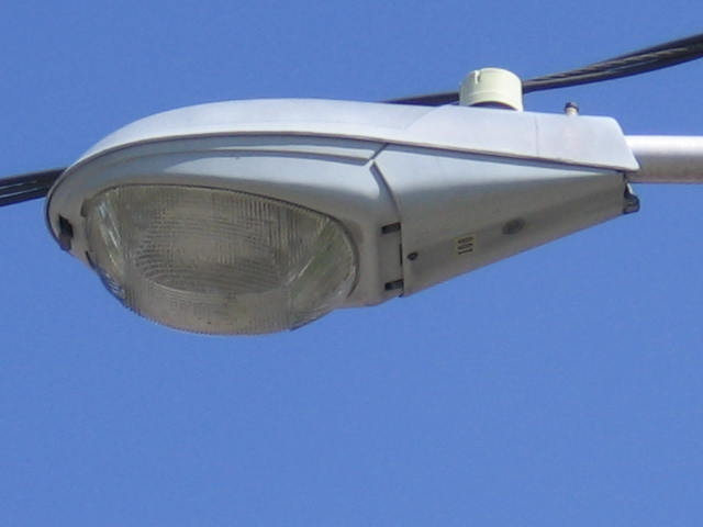 History of street lighting : General Electric , M250A (1967–1985) (50–250 watts)